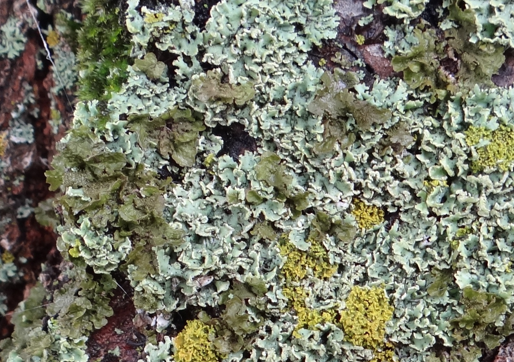 Melanohalea exasperatula (green), Physcia dubia (gray), Xanthoria candelaria (yellow) and moss